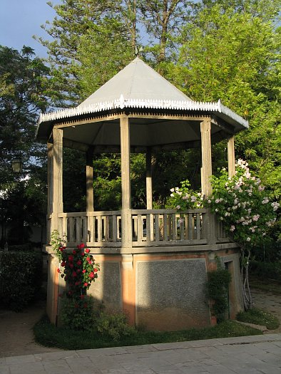 Band stand located in São Brás de Alportel, Algarve, Portugal.